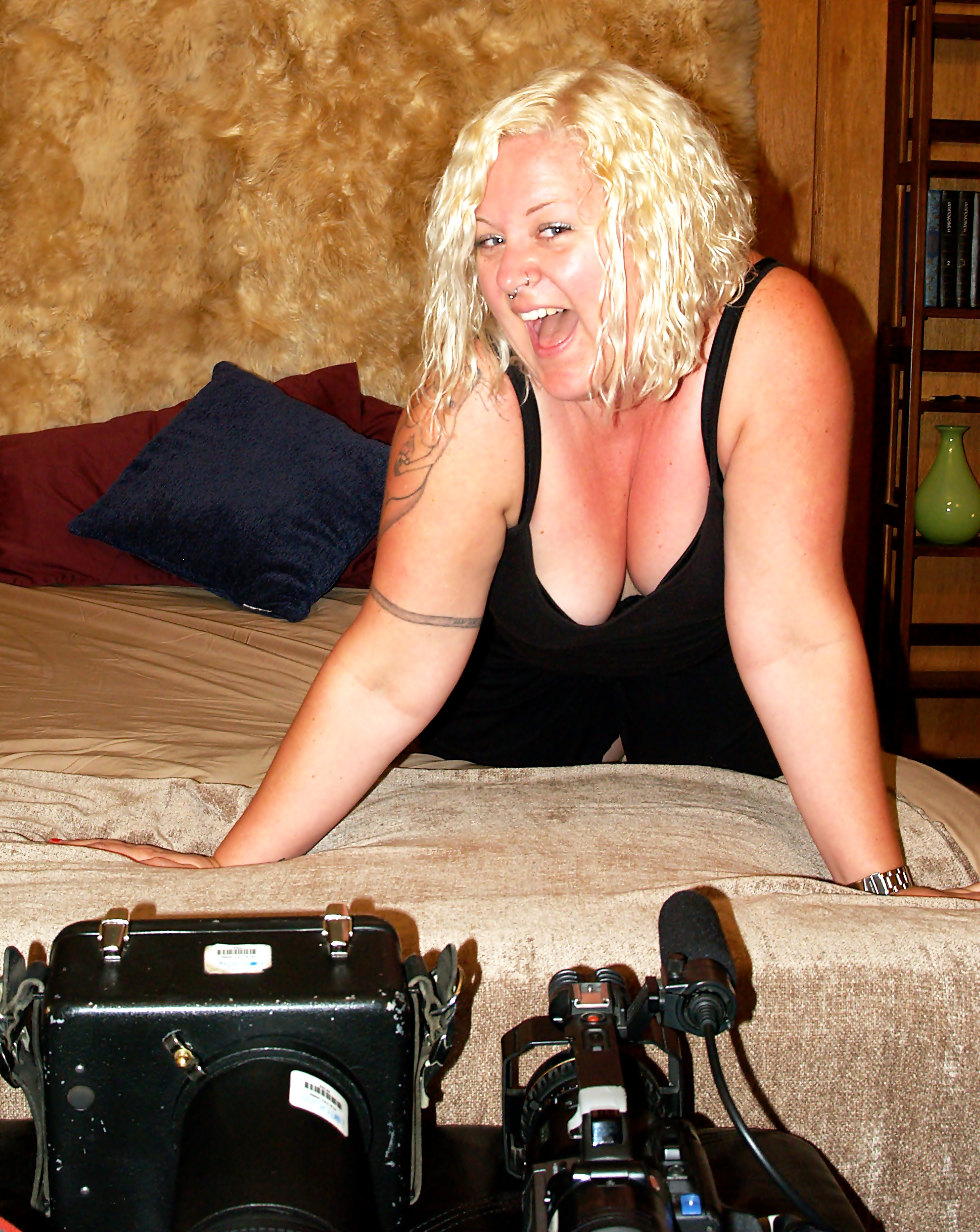 Mr. Pam on the set of a Lucas Entertainment production.